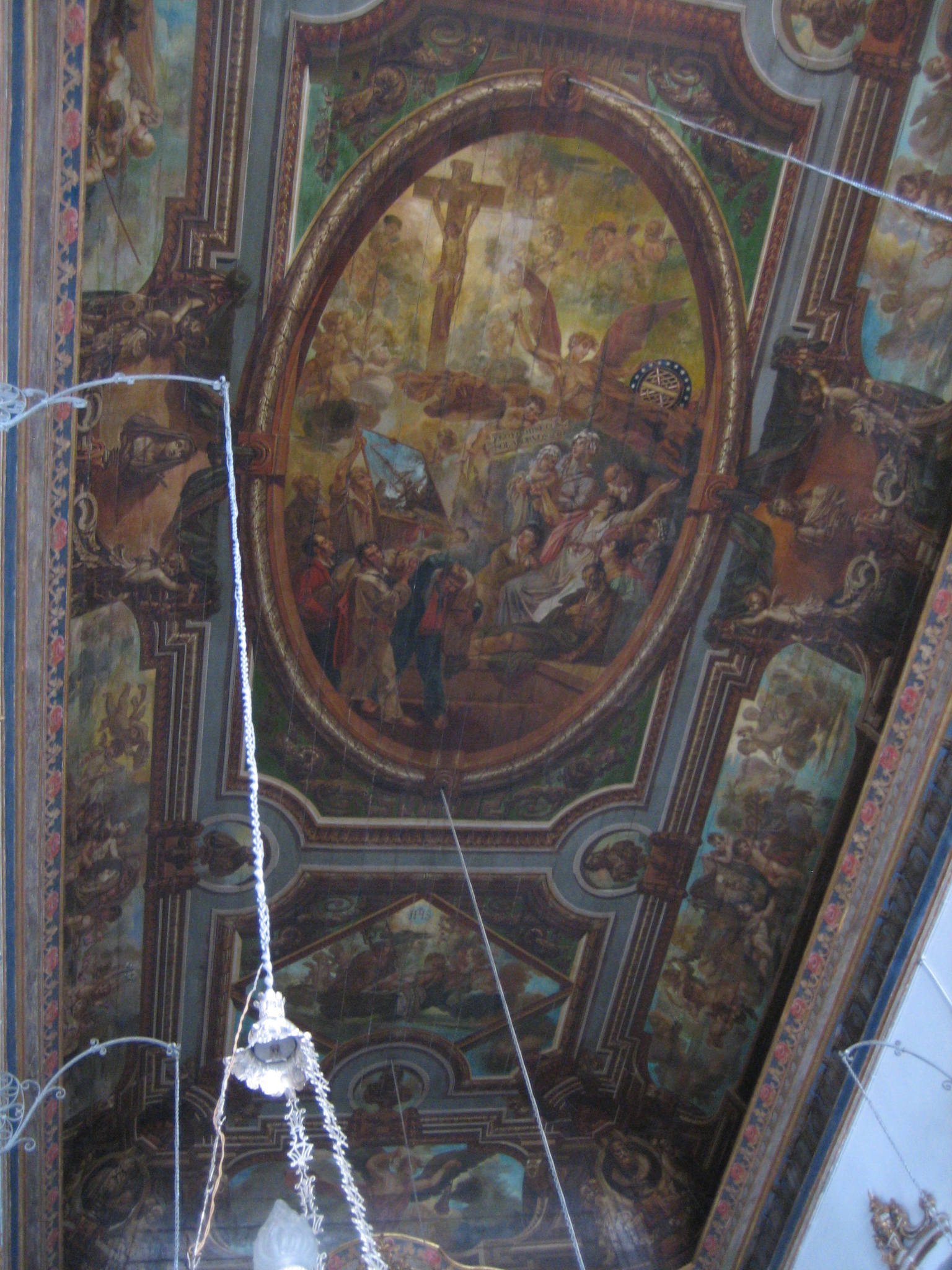 Painted ceiling of Nosso Senhor do Bonfim Church in Salvador, Bahia, Brazil